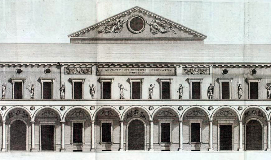 Engraving of the the facade of the now demolished Teatro del Corso in Bologna